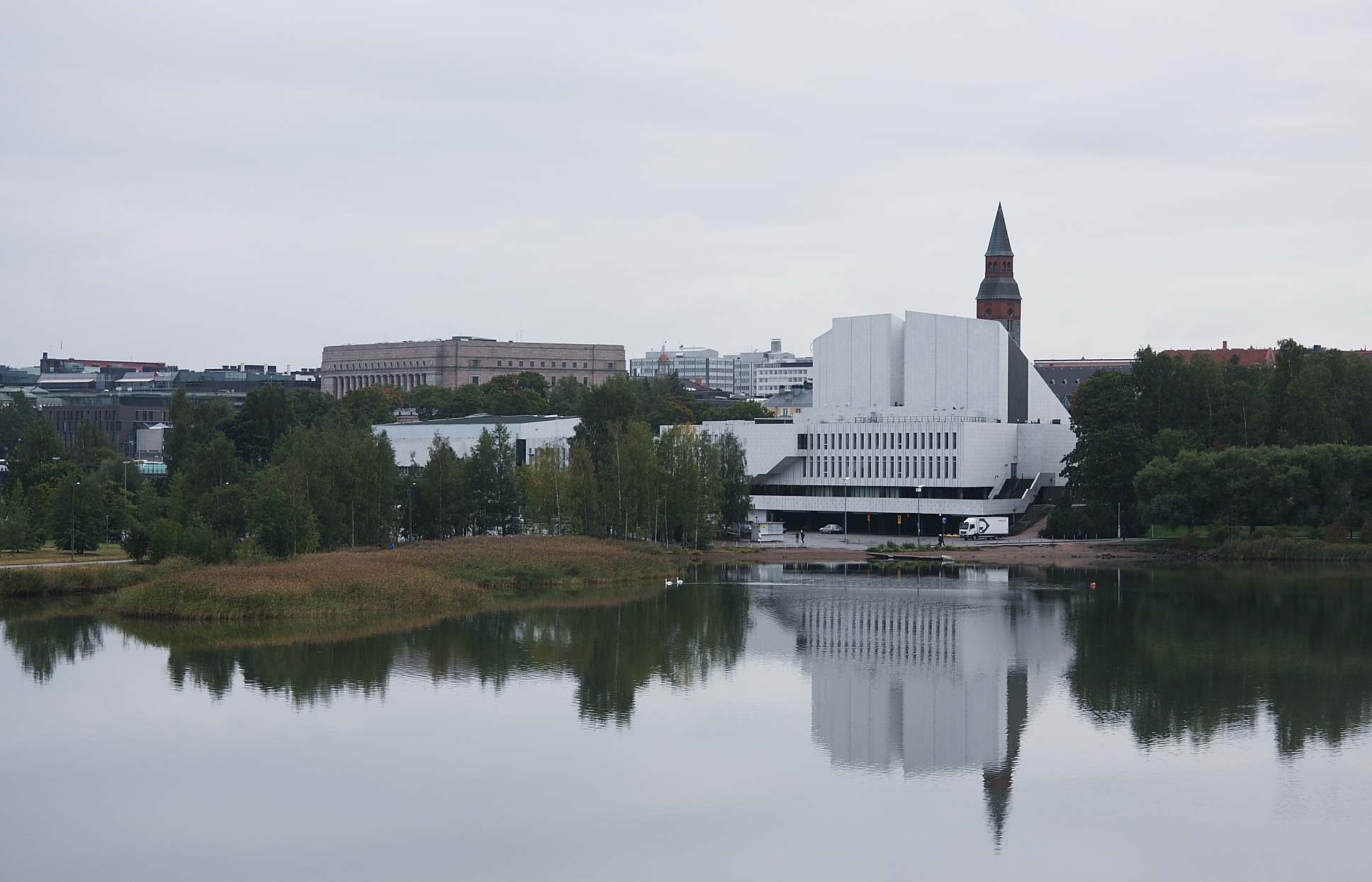 Finlandia Hall in Helsinki, Finland